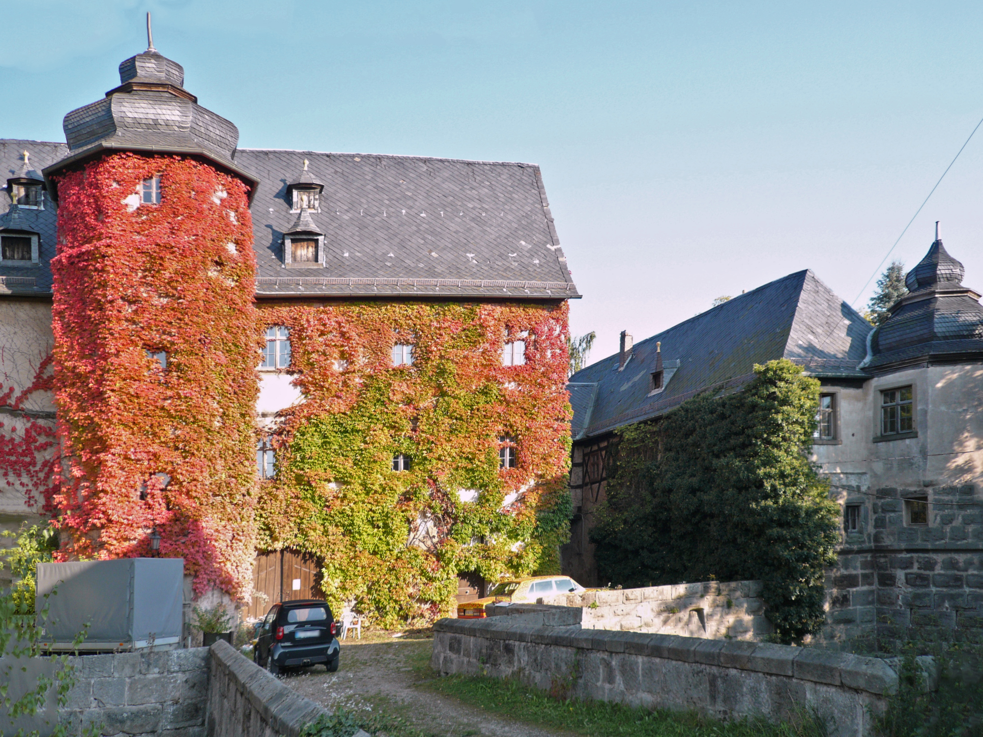 Castle of Ebelsbach near Bamberg